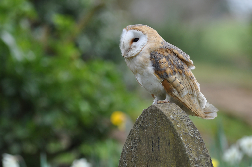 A Tyto alba in England.